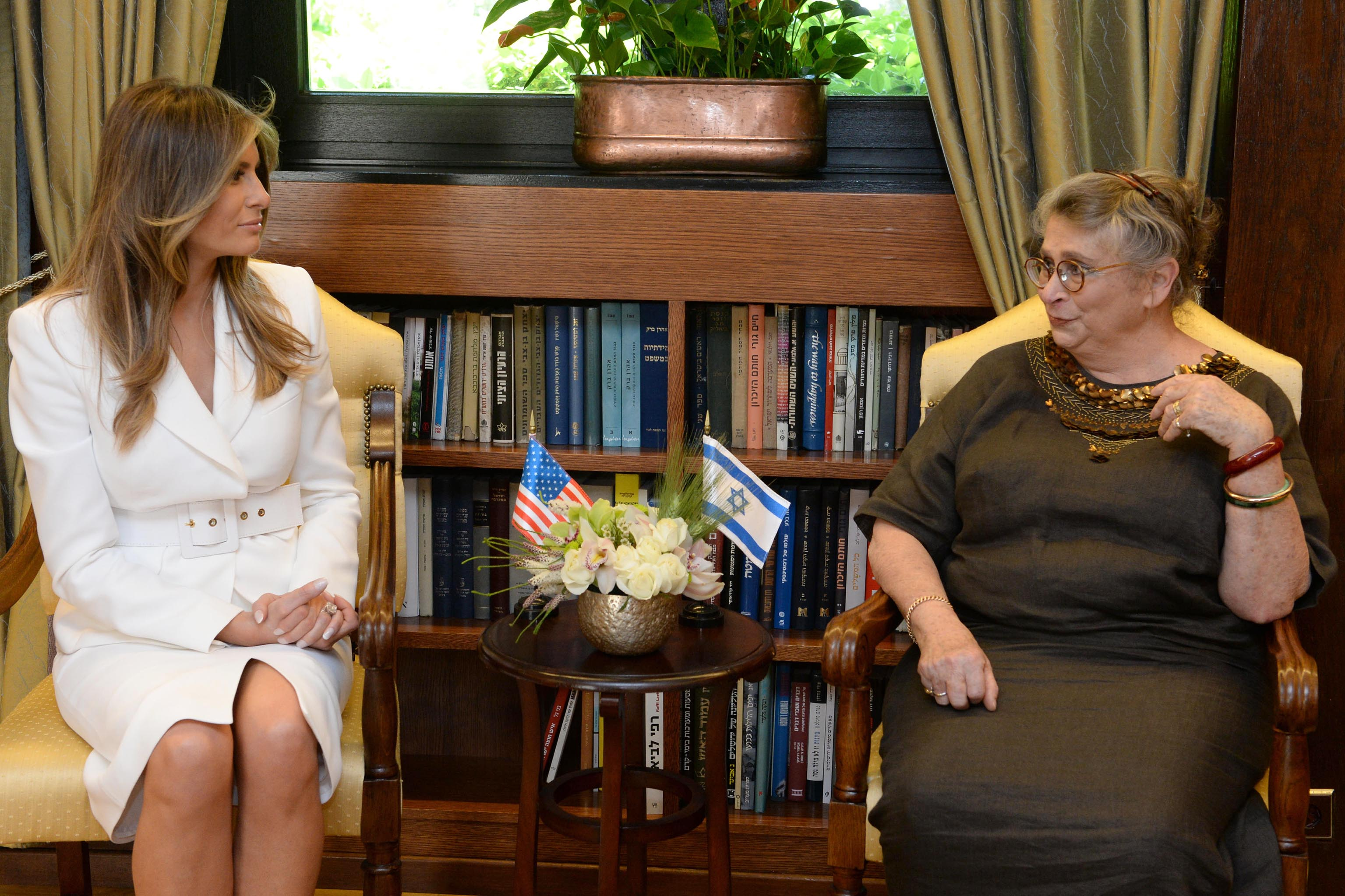 President of Israel's wife Nechama Rivlin with Melania Trump in Beit HaNassi, the official residence of the President of Israel in Jerusalem